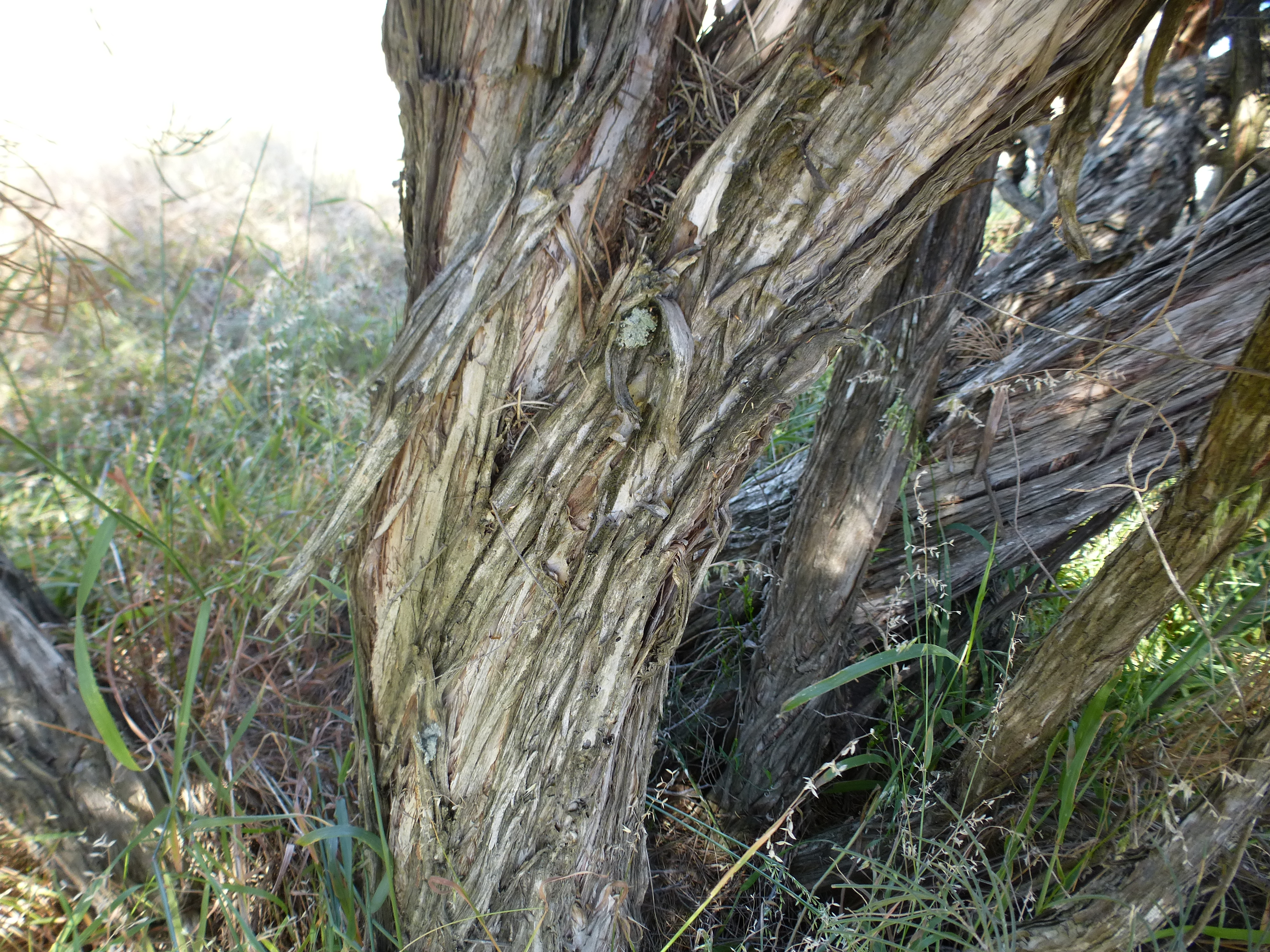 Melaleuca teretifolia growing along Nine Mile Swamp Road near Moore River National Park